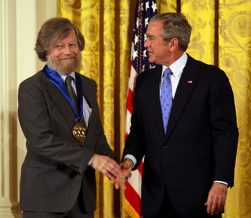 Composer Morten Lauridsen receiving the National Medal of Arts from US President George W. Bush in 2007.